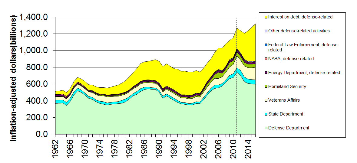 This graph shows the inflation-adjusted defense spending of the United States federal government from 1962 to (forecasted) 2014. It is derived from the FY2012 "President's budget" Historical tables (Table 3.2—OUTLAYS BY FUNCTION AND SUBFUNCTION: 1962–2014), adjusted using CPI inflation data.